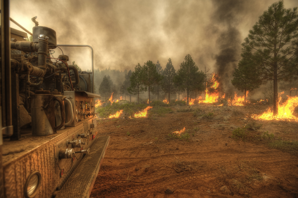 The Barry Point Fire, sparked by lightning, is located 22 miles southwest of Lakeview, Oregon, on the Fremont-Winema National Forest and private lands. For up-to-date info, notices, and maps